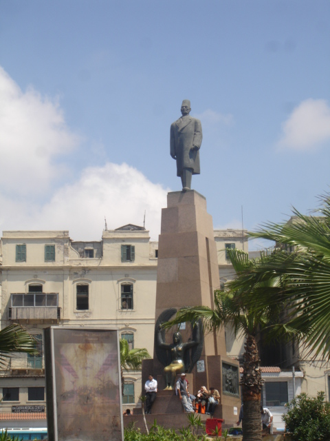 Saad Pacha Zaghloul statue- Alexandria. (Author: Amr Fayez)